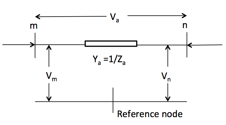 Two Node Power Flow Diagram